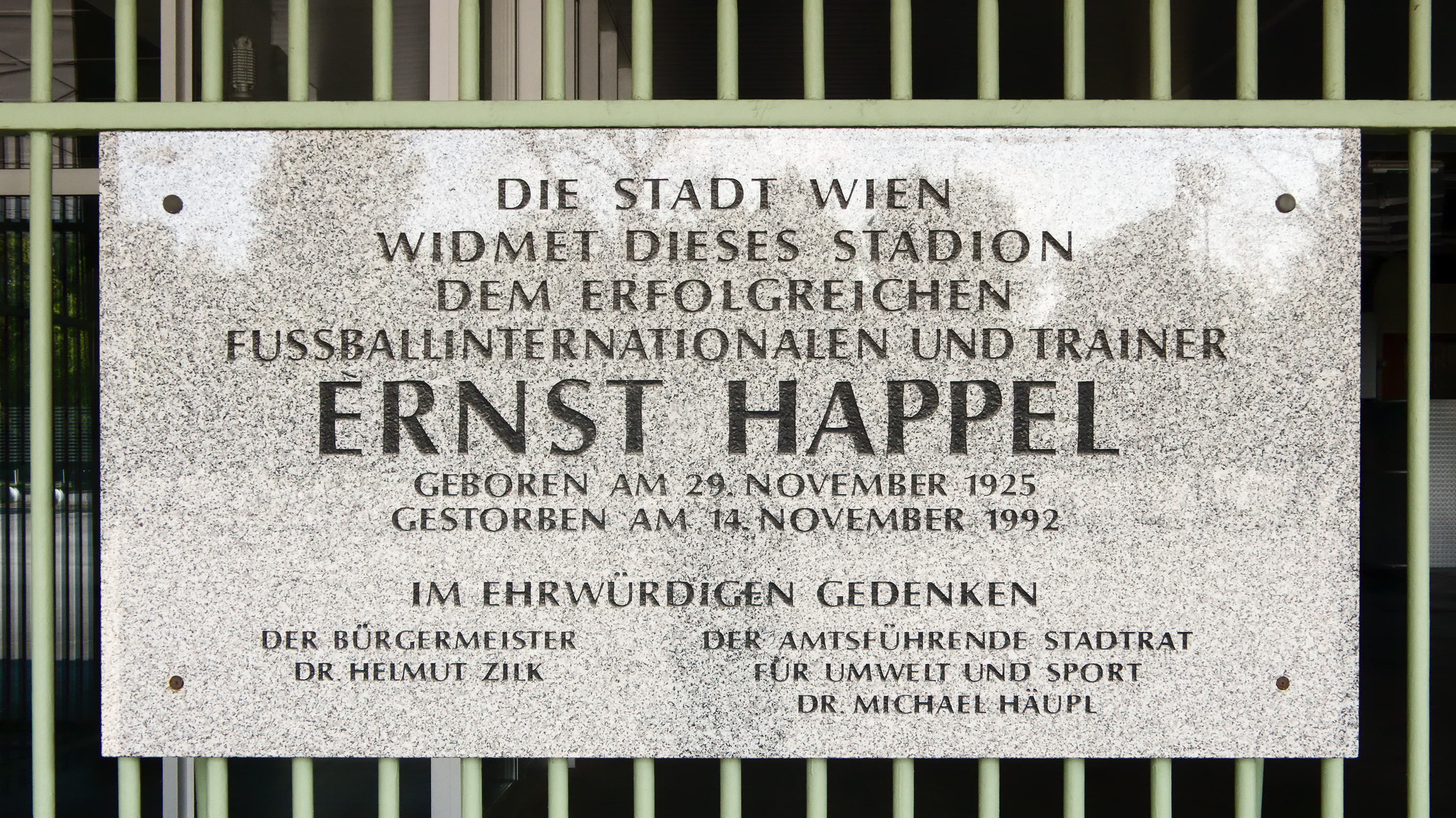 Stadium Ernst-Happel-Stadion in Vienna Leopoldstadt